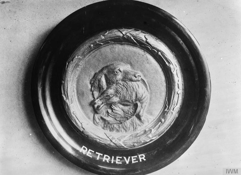 Collections of the Imperial War Museum Ship badge of HMS Retriever.